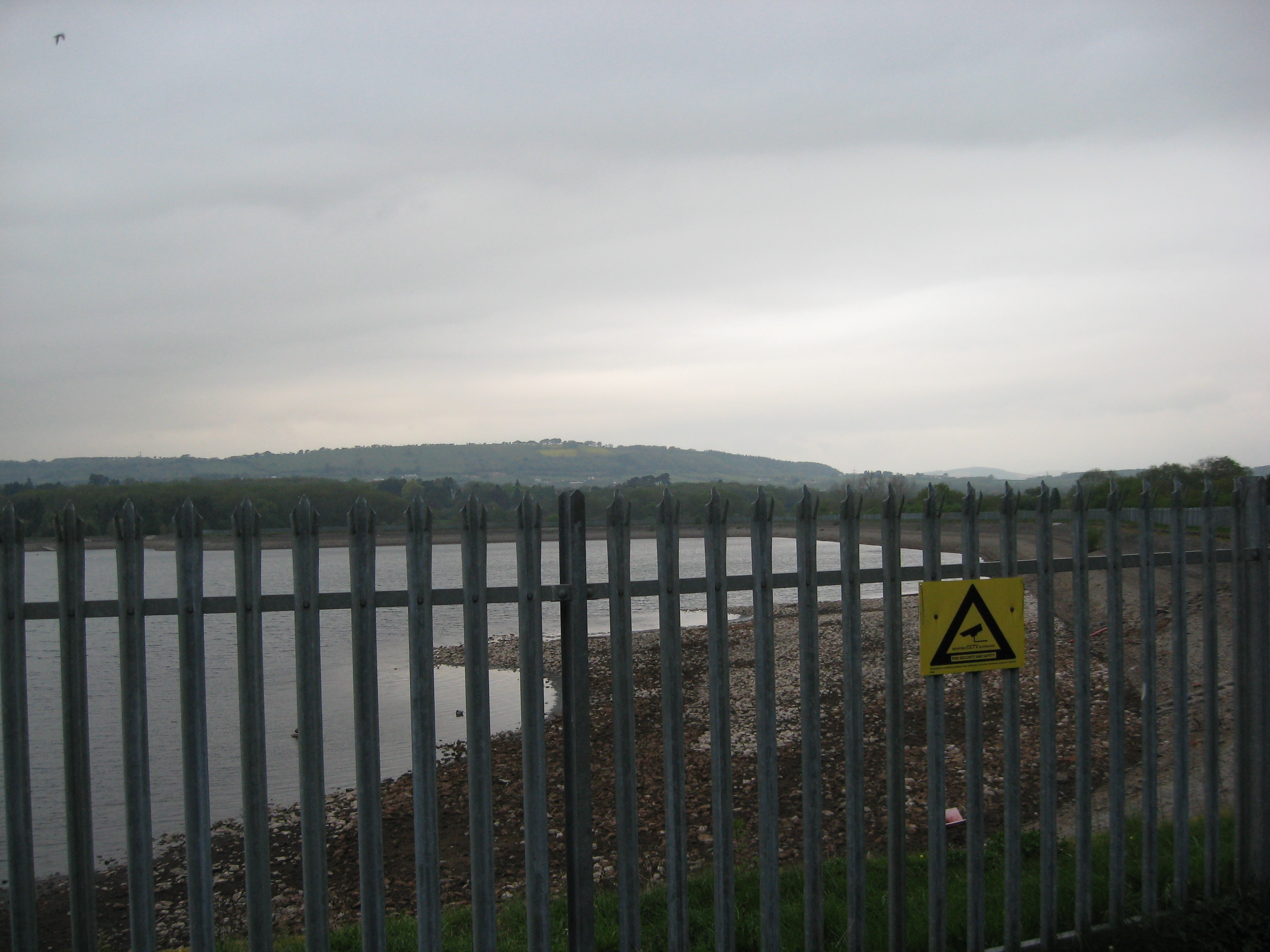 Llanishen reservoir (semi-drained) - view of fence with surveillance sign.